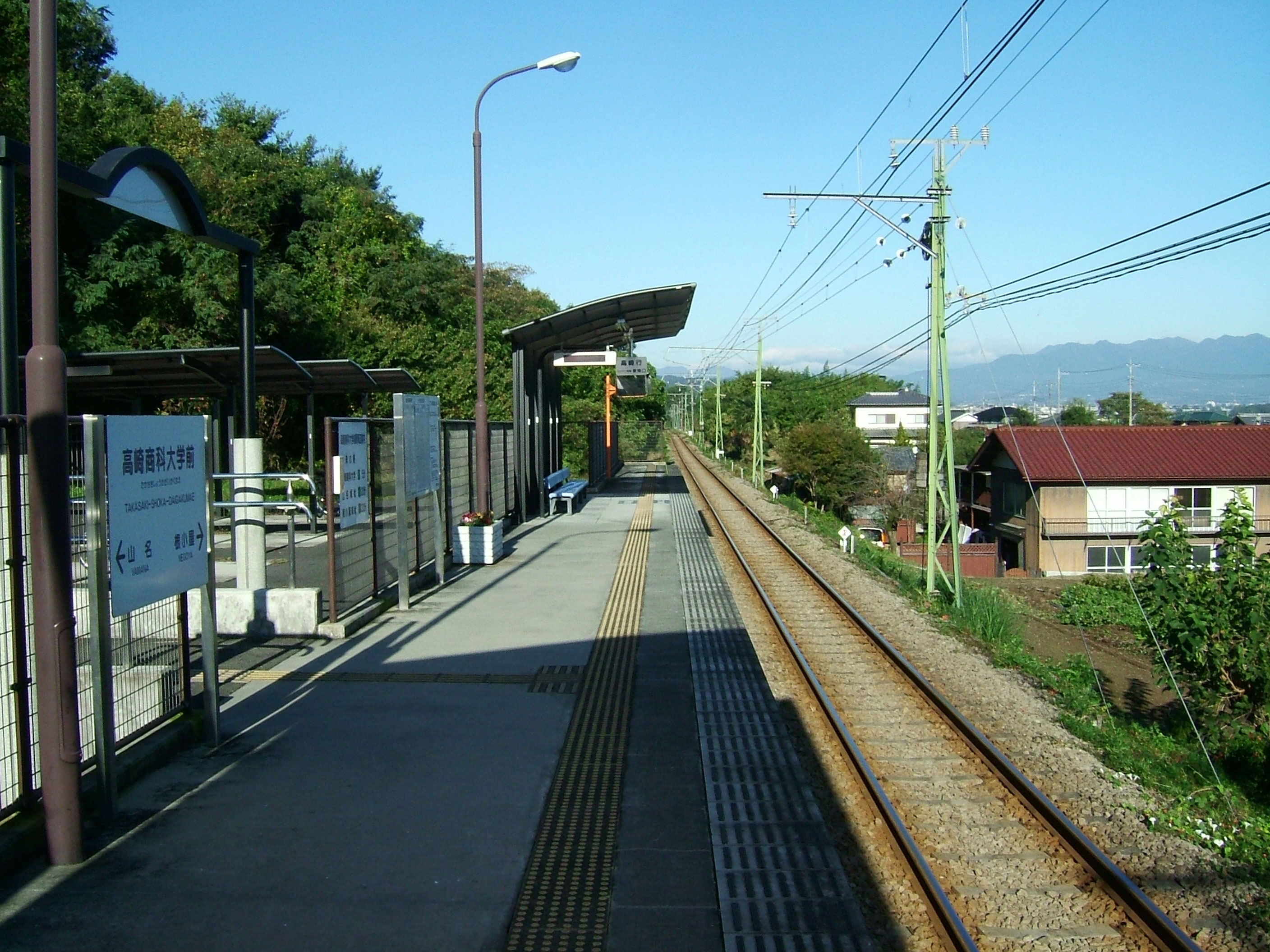 Takasaki-Shōkadaigakumae Station platform (Jōshin Dentetsu Jōshin Line)